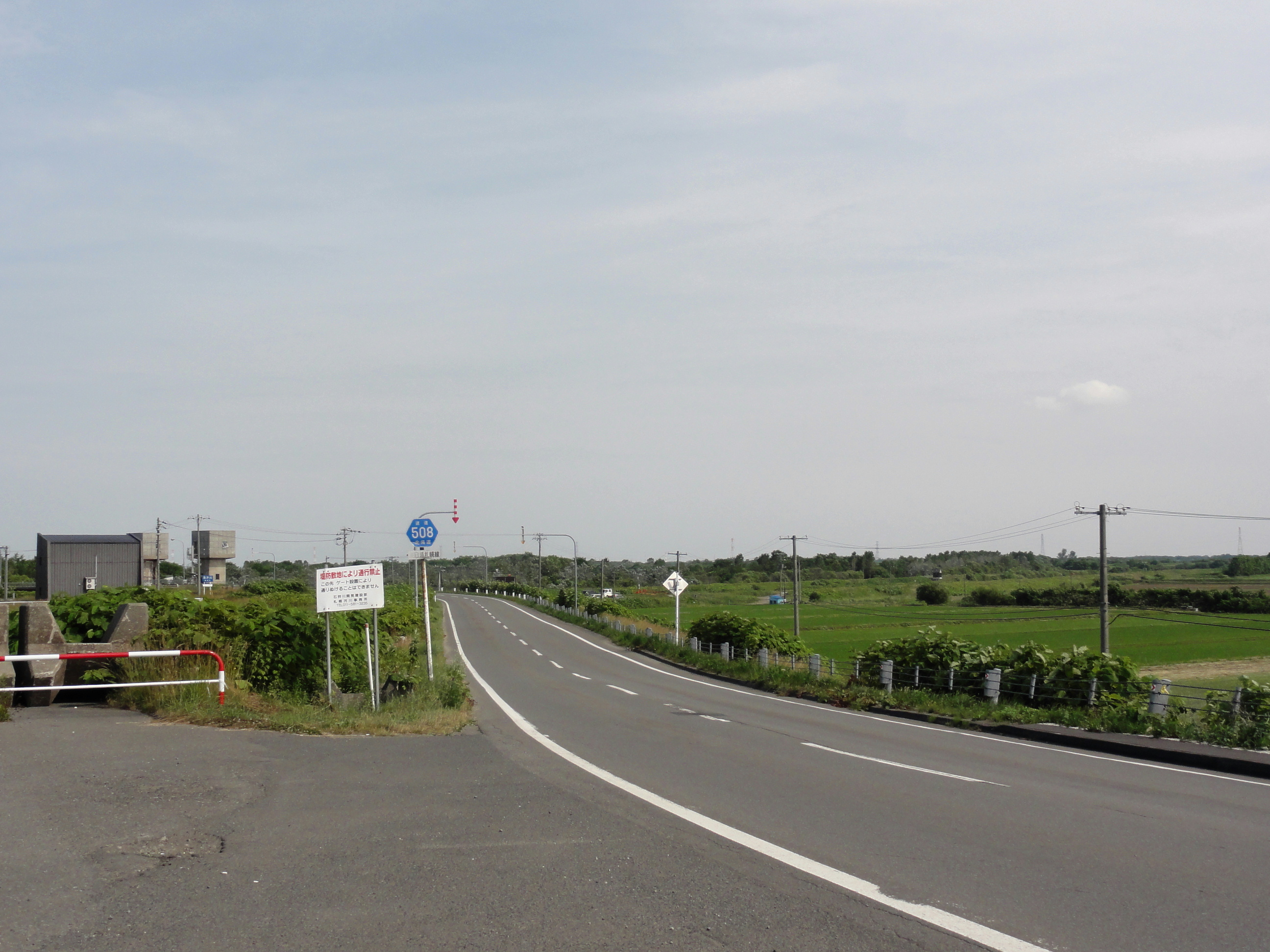 Hokkaido Pref Route 580 (Ishikari, Hokkaidō)